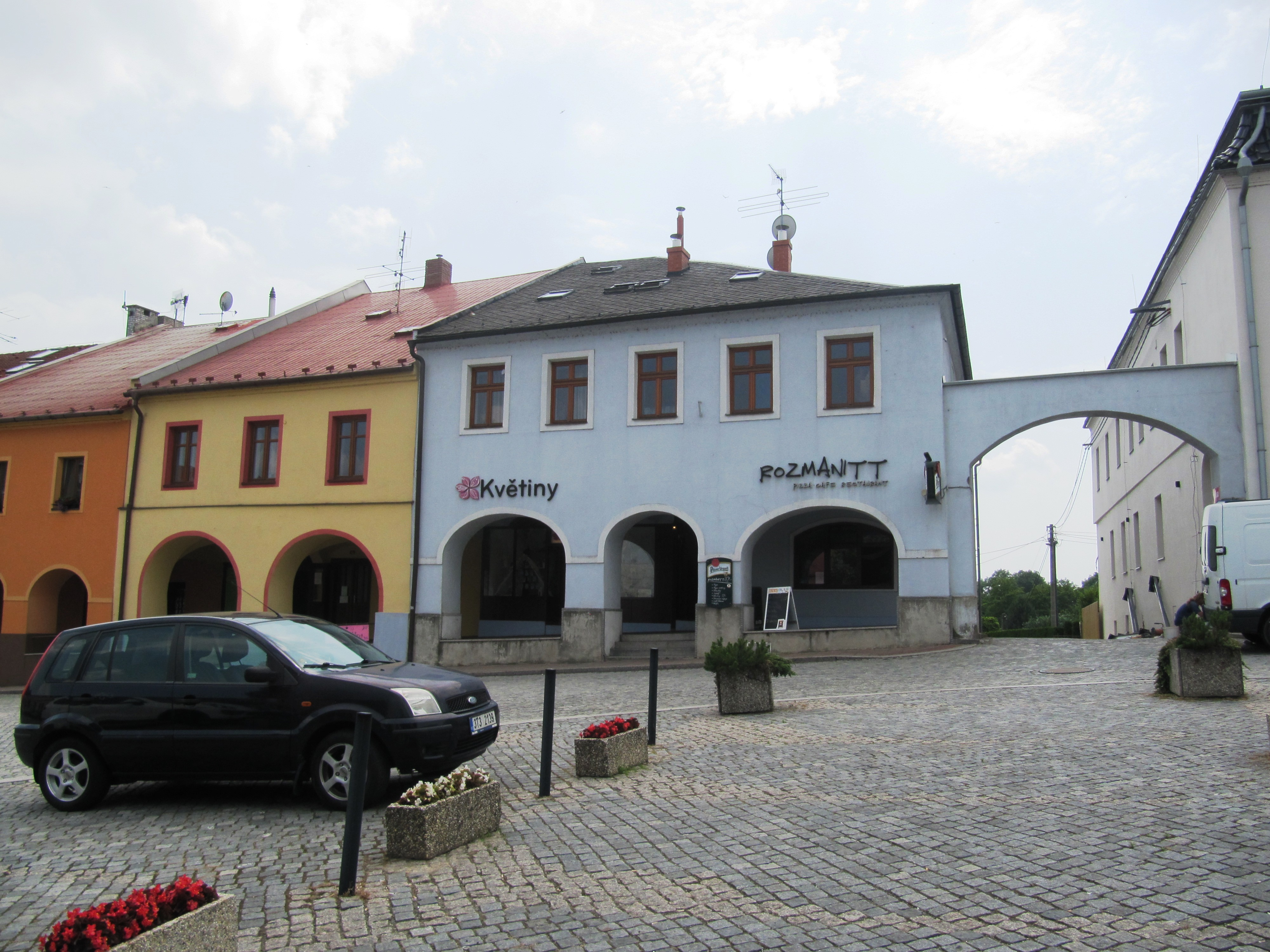 Klimkovice, Ostrava-City District, Czech Republic. Square.